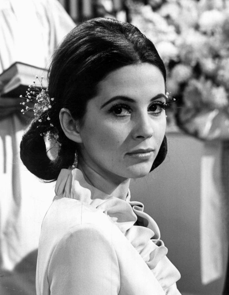 Publicity photo of Barbara Parkins from the television program Peyton Place. Parkins played "bad girl" Betty Anderson who had designs on and married Rodney Harrington, played by Ryan O'Neal.